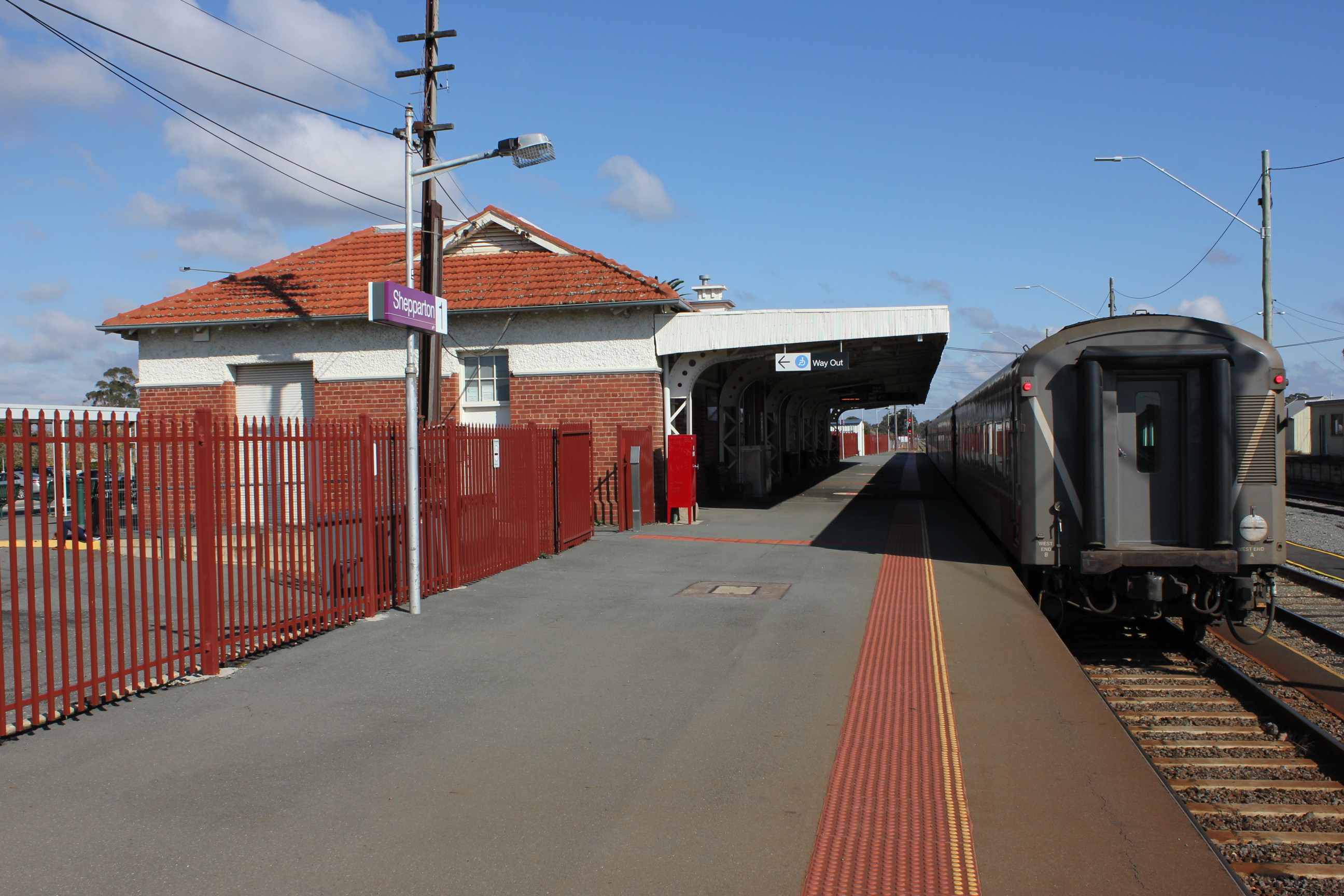 Overview of Shepparton station building and platform, looking south towards Melbourne, May 2017.